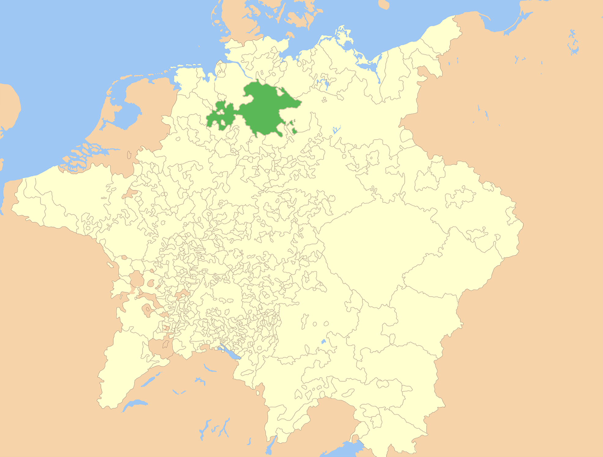 A map showing the location of the Duchy of Brunswick-Lüneburg